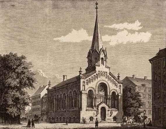 The architect's original drawing of Jerusalemkirken on Rigensgade in Copenhagen, Denmark. The design was somewhat simplified to cut costs.